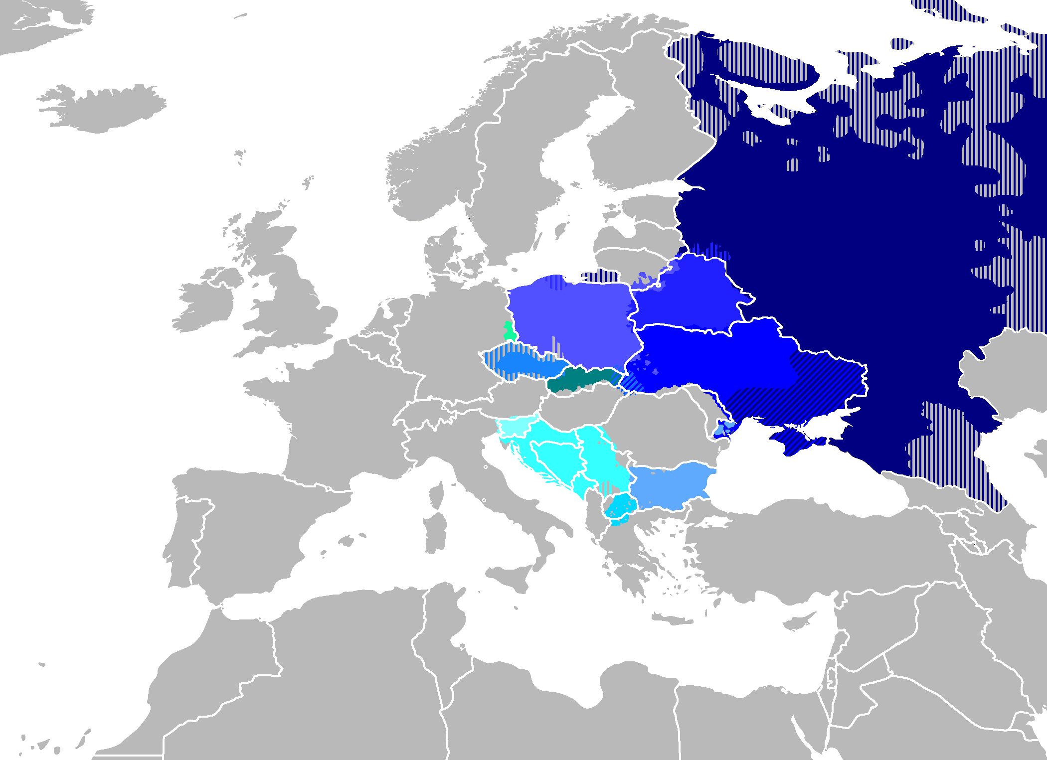 Slavic languages map.